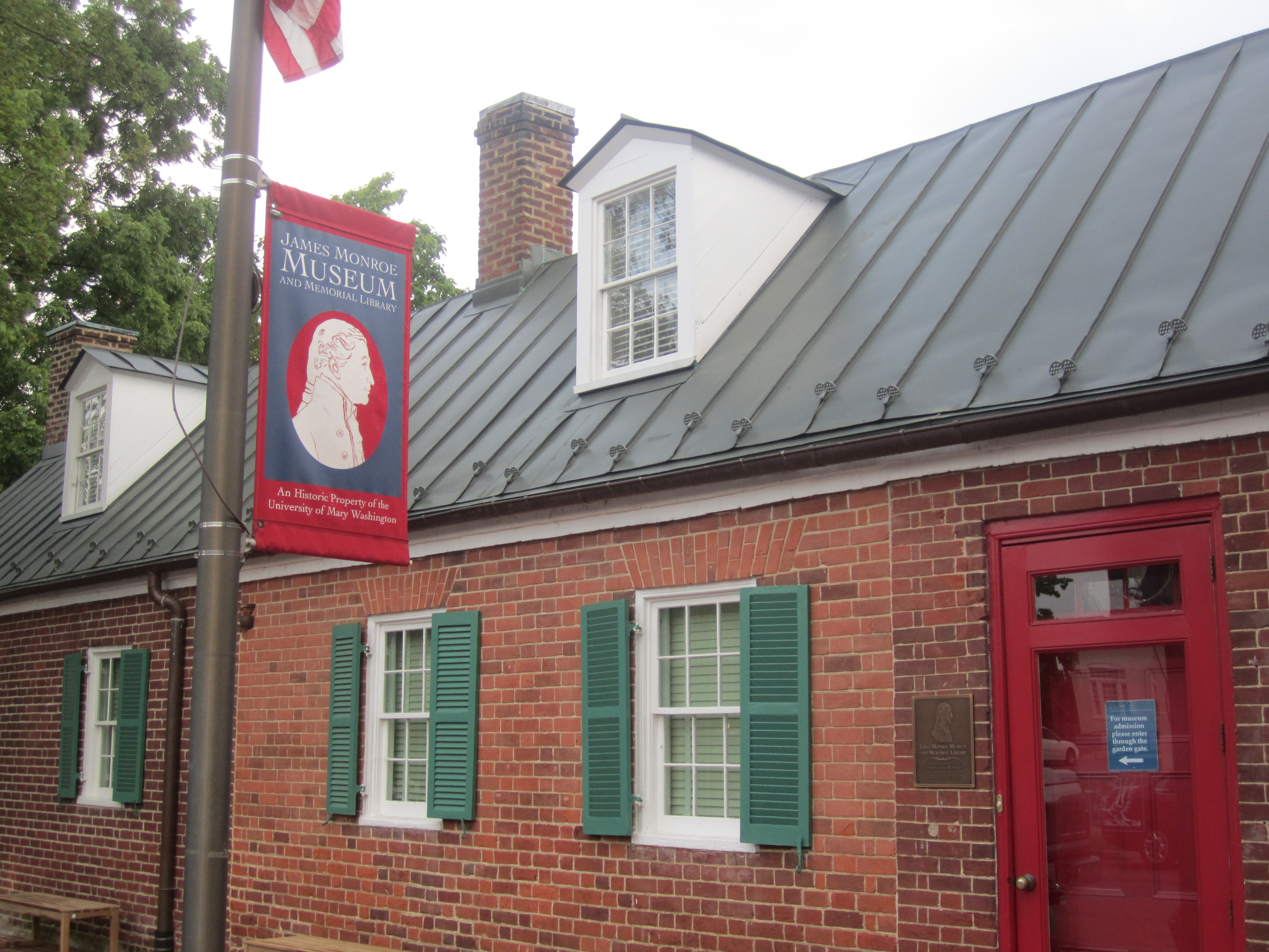 I took photo with Canon camera at James Monroe Museum in Fredericksburg, VA.